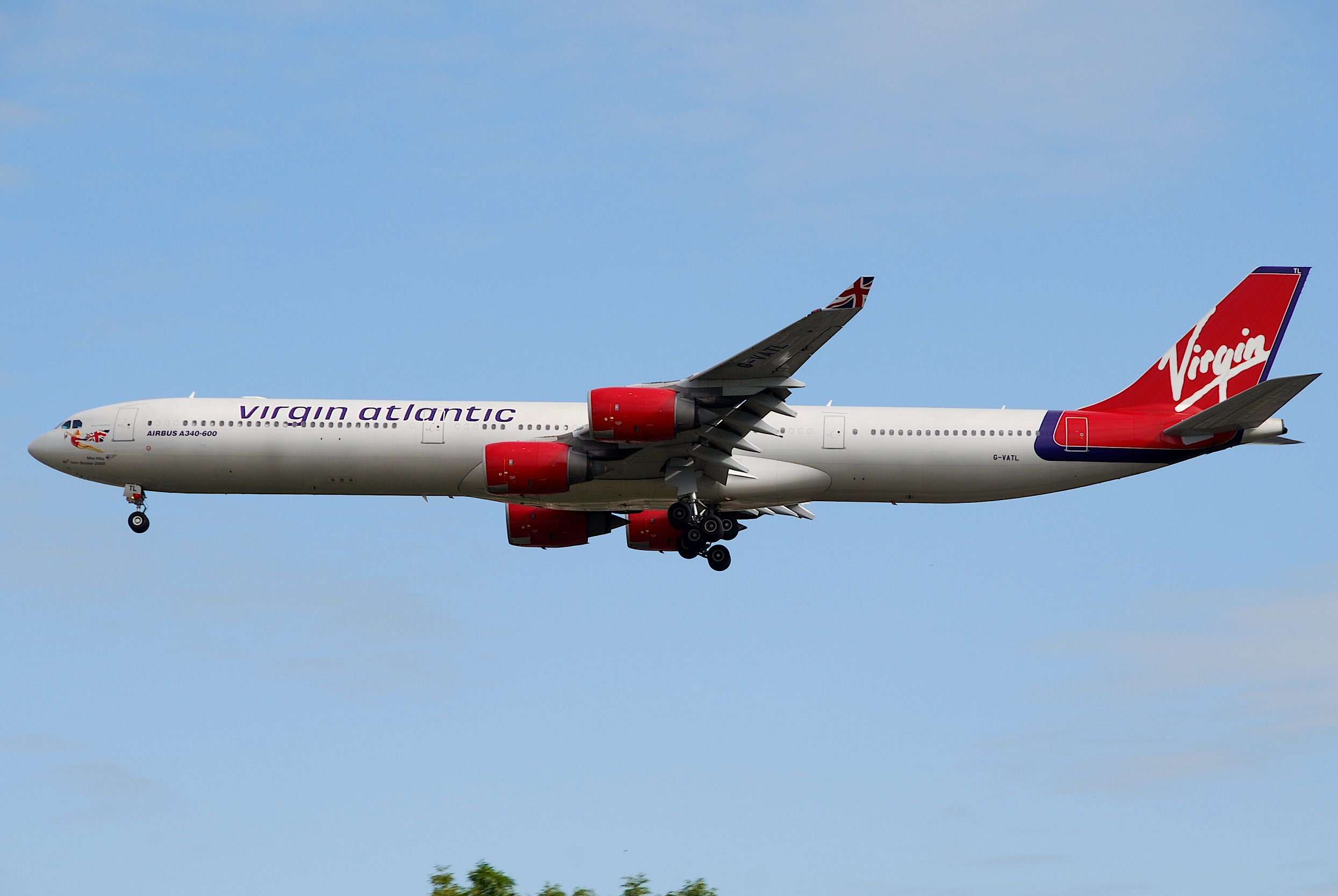 Virgin Atlantic Airbus A340-600; G-VATL@LHR;05.08.2009/550al